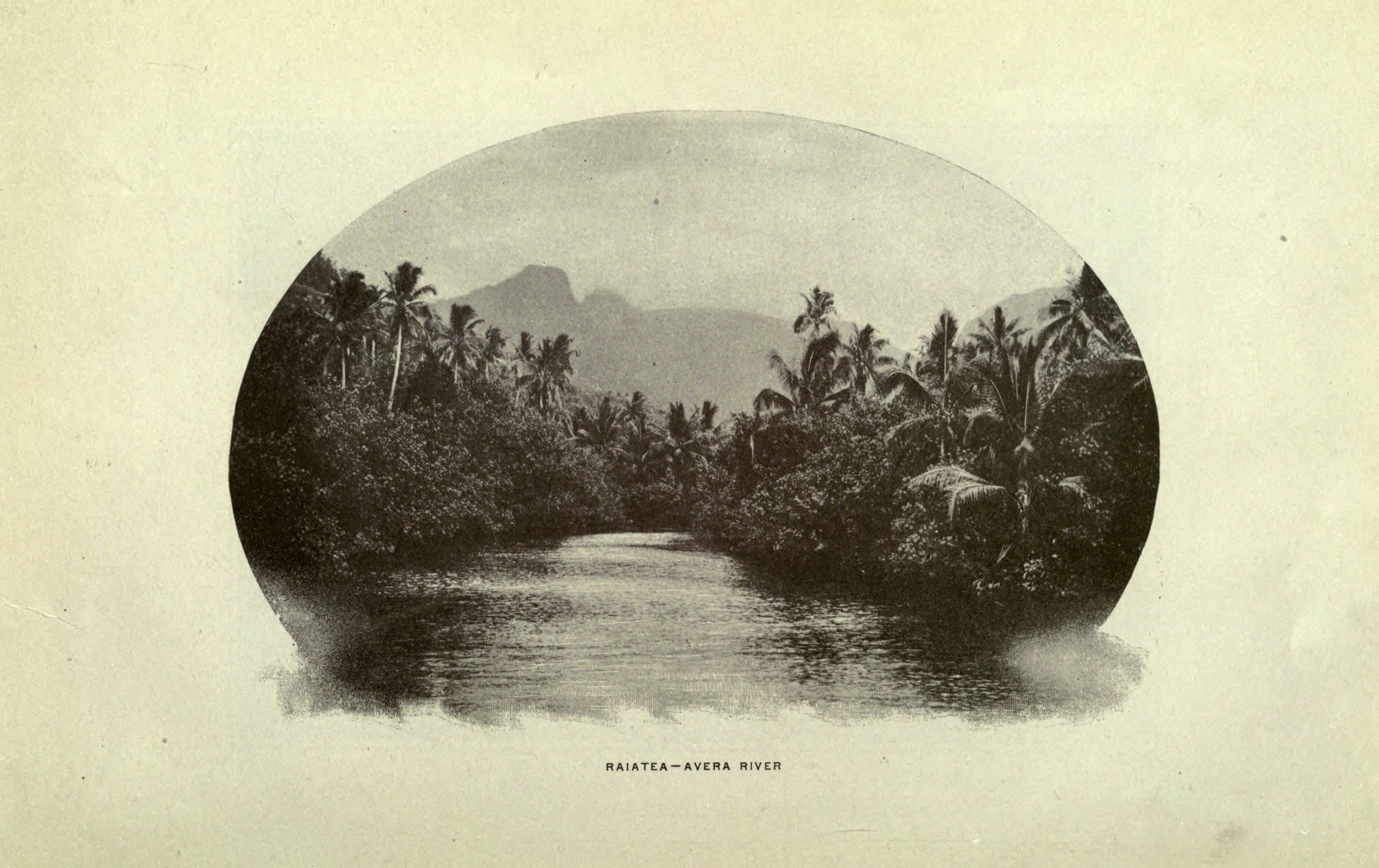 Avera River Raiatea.